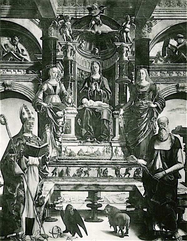 'Madonna and Child Enthroned with Four Saints', by Ercole de’ Roberti (c. 1475), a painting possibly destroyed in the Friedrichshain flak tower fire in Berlin, at the end of the Second World War (May 1945). The painting belonged to the collections of the Kaiser-Friedrich-Museum, now the Bode-Museum of Berlin.